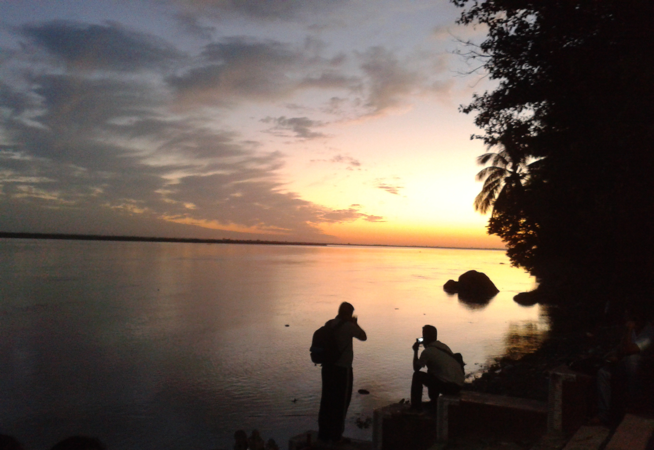 Veiw of Sunset at Ganesh Ghat (Tezpur) on the banks of the river Brahmaputra